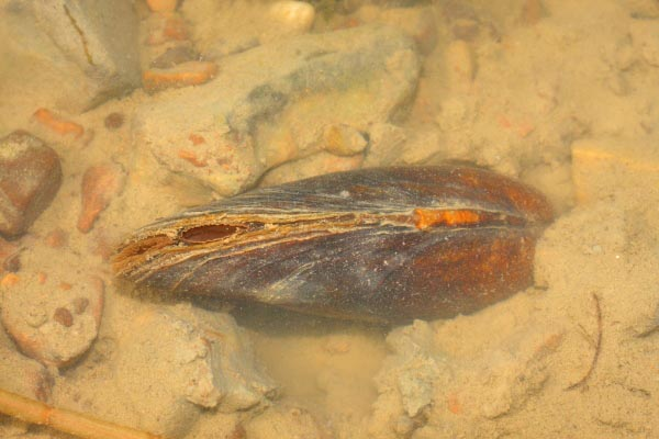 Unio mancus, River Bracana, Istria, Croatia